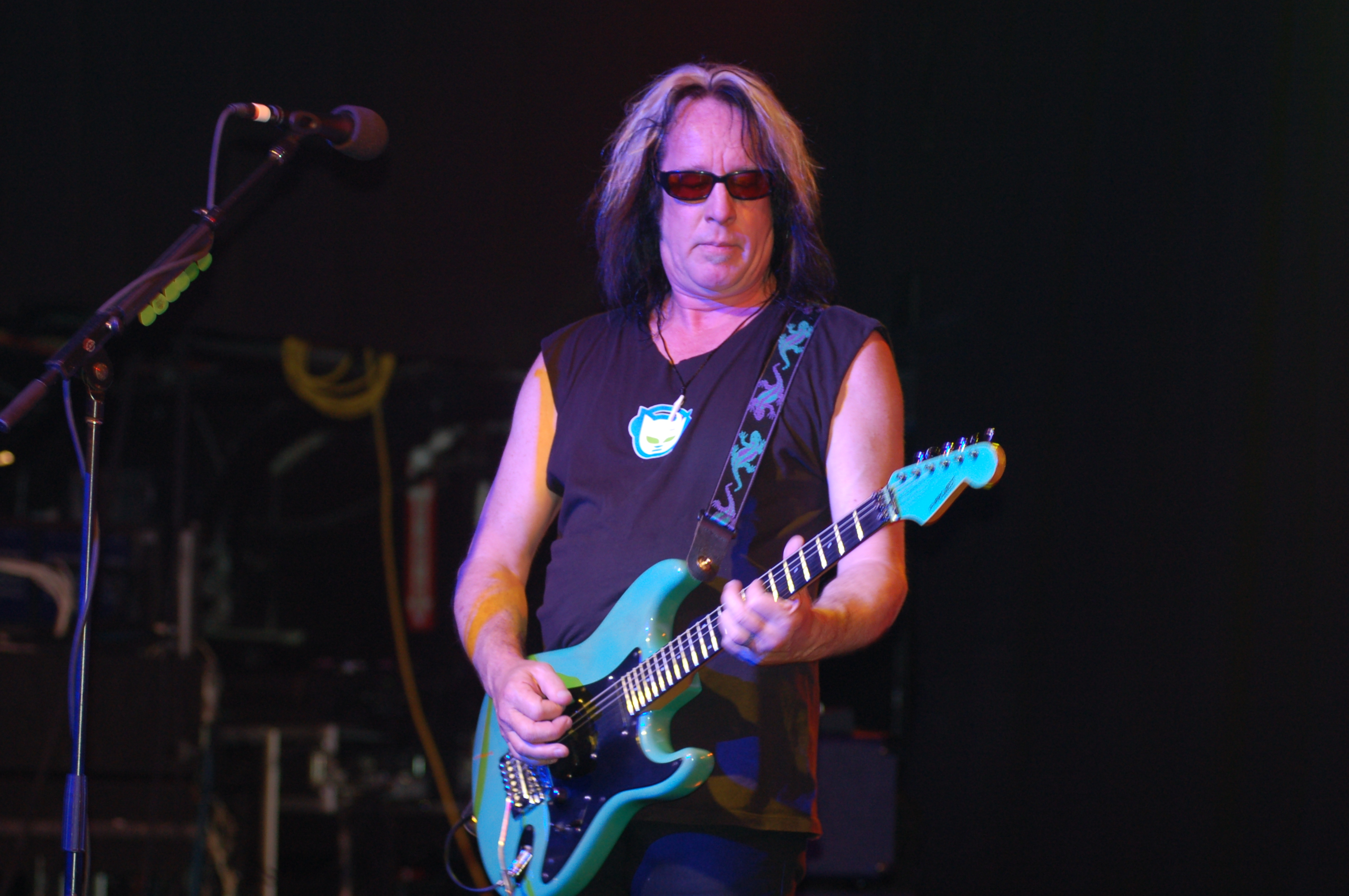 March 25th 2009 - Fort Lauderdale, FL